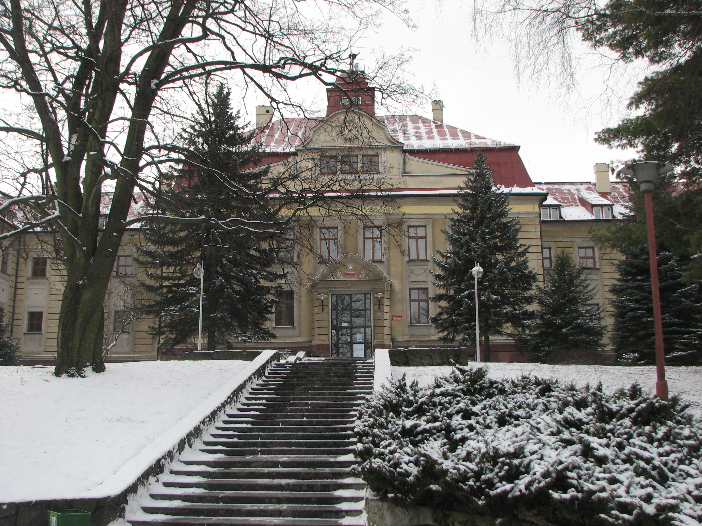 Silesian University - faculties in Cieszyn, 62 Bielska Street.